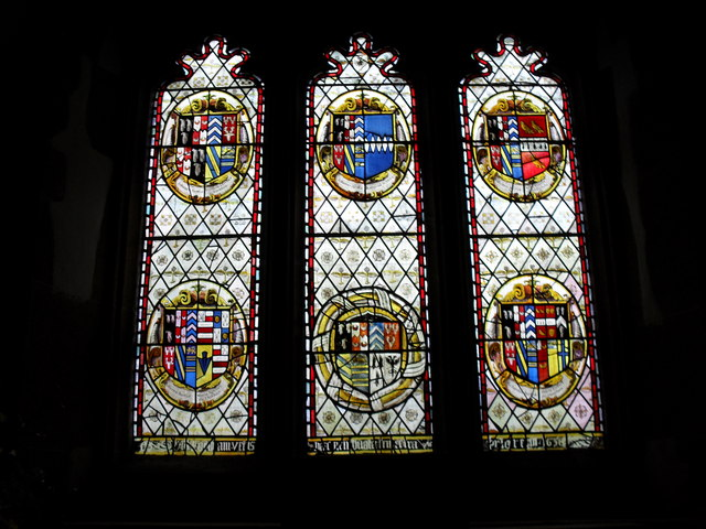 Barttelot arms1638 Stained glass window within St Mary's Church, Stopham, Sussex. Arms of Barttelot of Stopham, Sussex (Barttelot Baronets, 1875): Sable, three sinister gloves pendent argent tasselled or (Montague-Smith, P.W. (ed.), Debrett's Peerage, Baronetage, Knightage and Companionage, Kelly's Directories Ltd, Kingston-upon-Thames, 1968, p.52). The Barttelot family has been seated at Stopham since 1379. The church has a large collection of heraldic brasses. See 2018 youtube video of Sir Brian Barttelot showing a visitor (The Bald Explorer) around, discussing his family, the brasses and stained-glass windows, including this one[1])